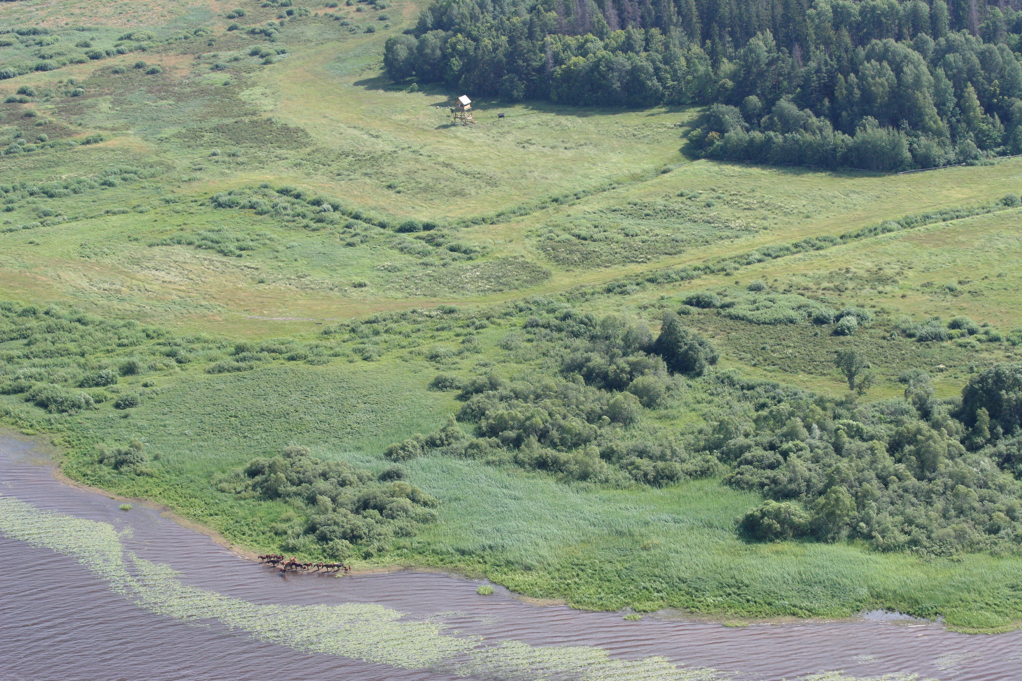 Lake Burtnieks - horses - Natura 2000 area - Burtnieki meadows - Latvia - Burtnieki - birdwatcher tower